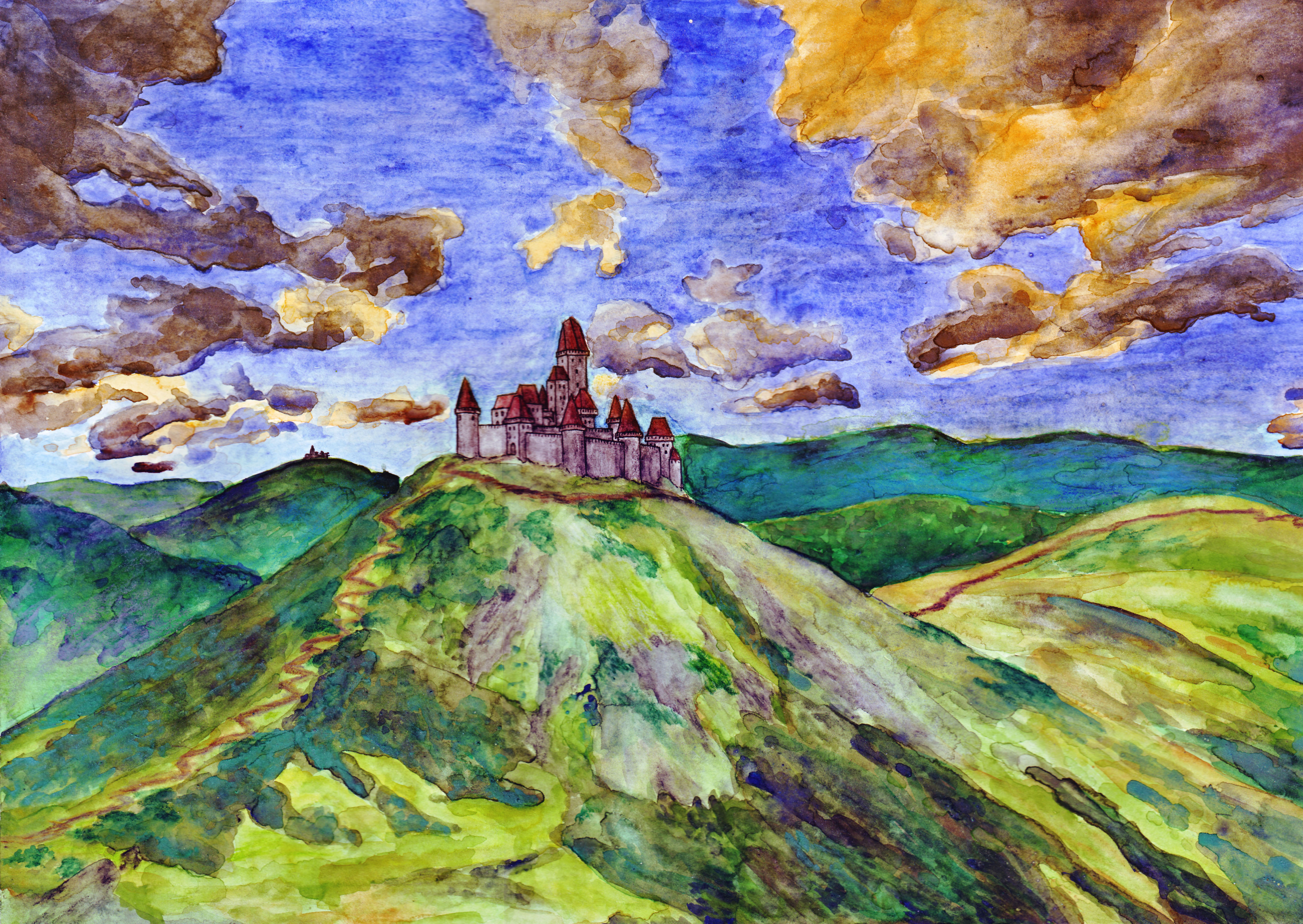 North Downs in Eriador